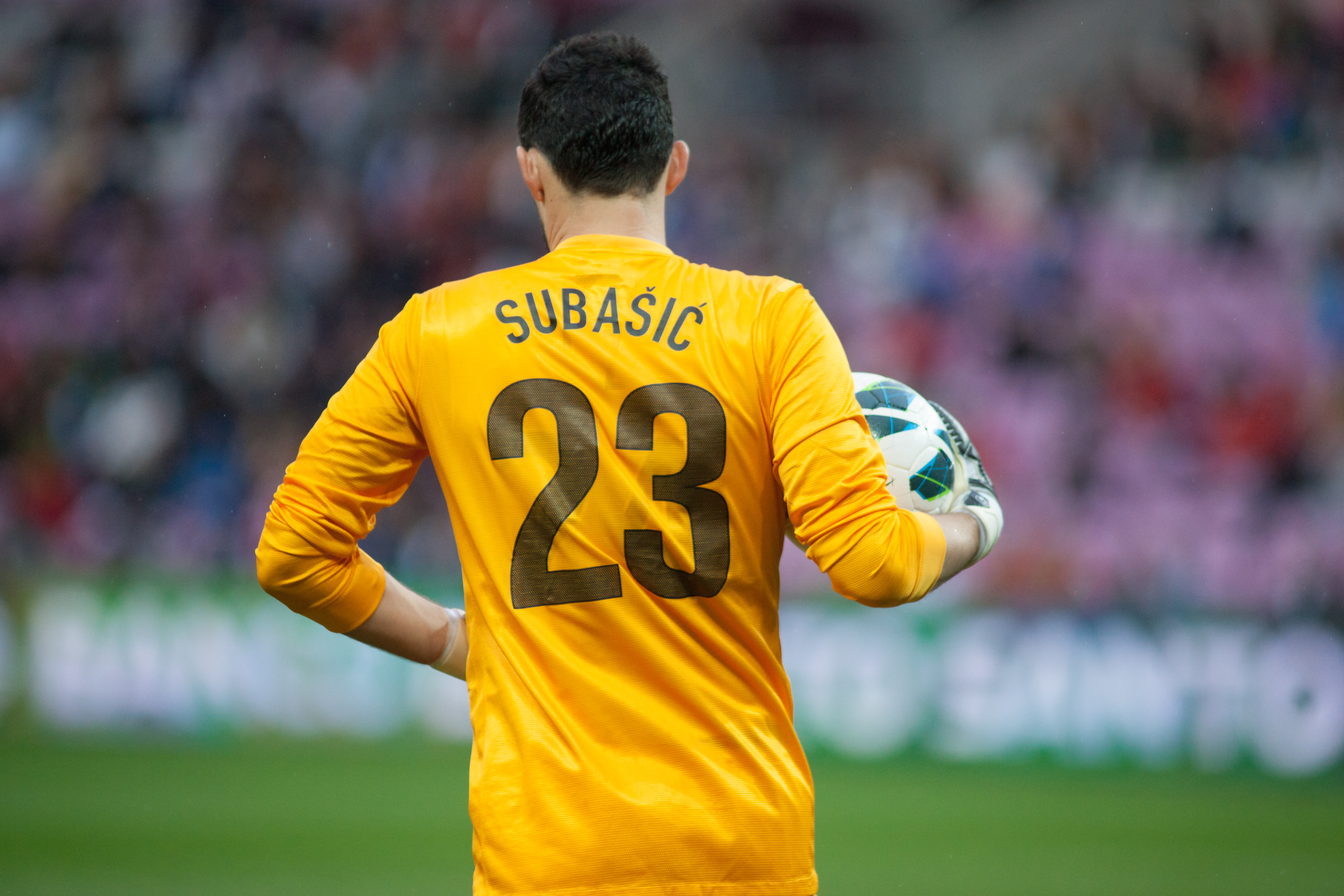 Croatia vs. Portugal, 10th June 2013